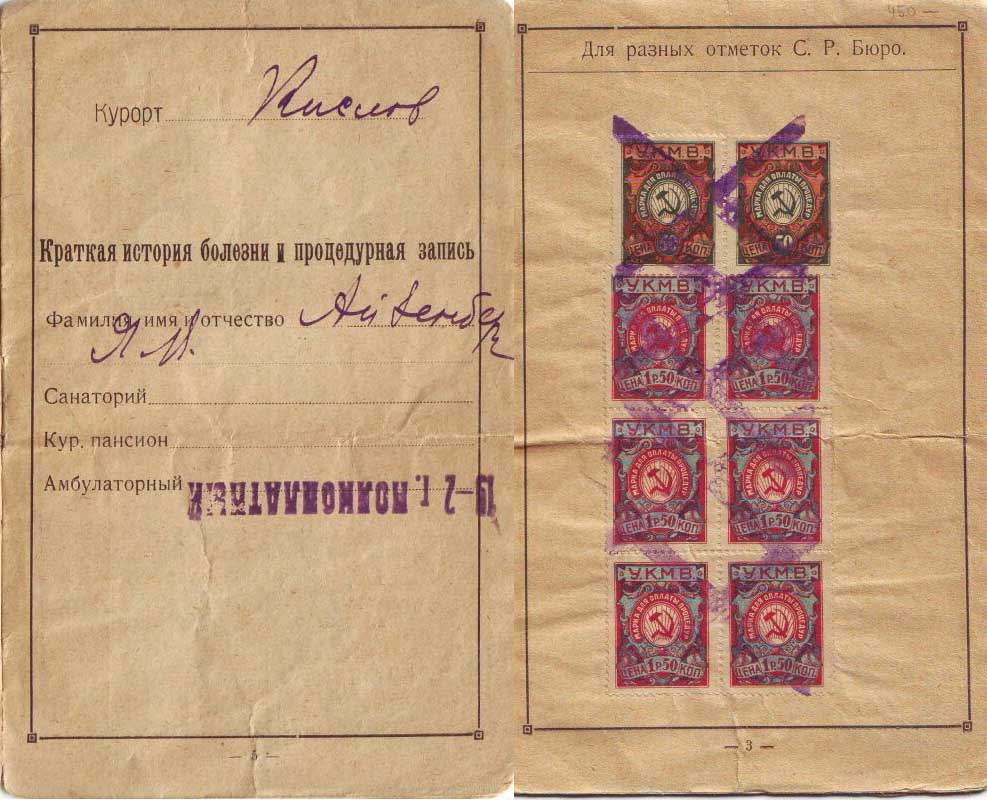 Kislovodsk, Russia. Non-postage stamps of resort duty, 1920-ies.